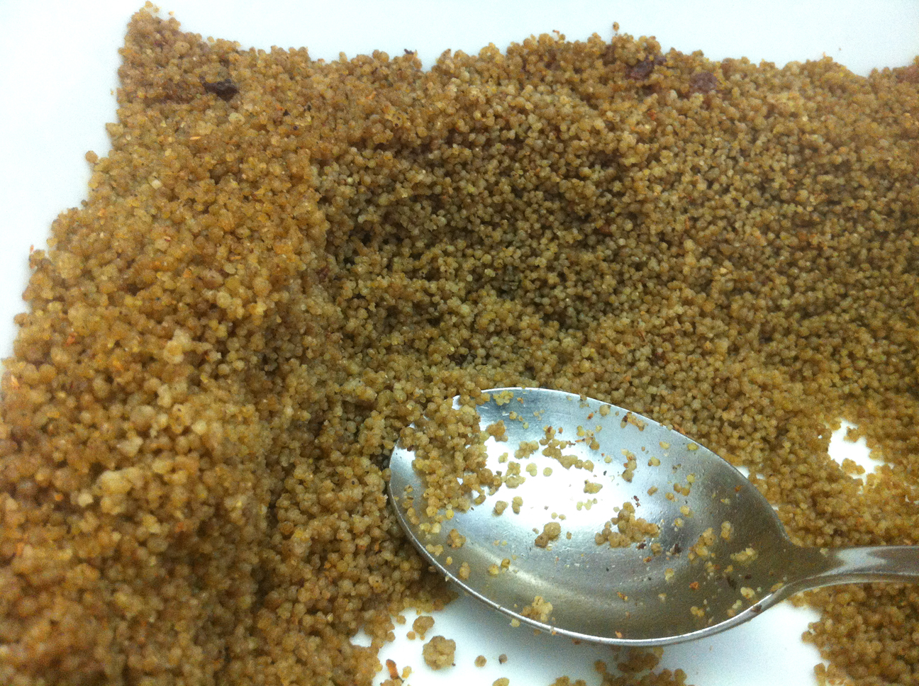 Thiakry, a dessert in Senegal